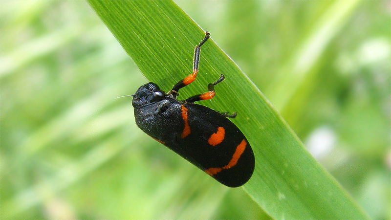 Cercopis intermedia, Europe, Portugal, Leiria, Ansião